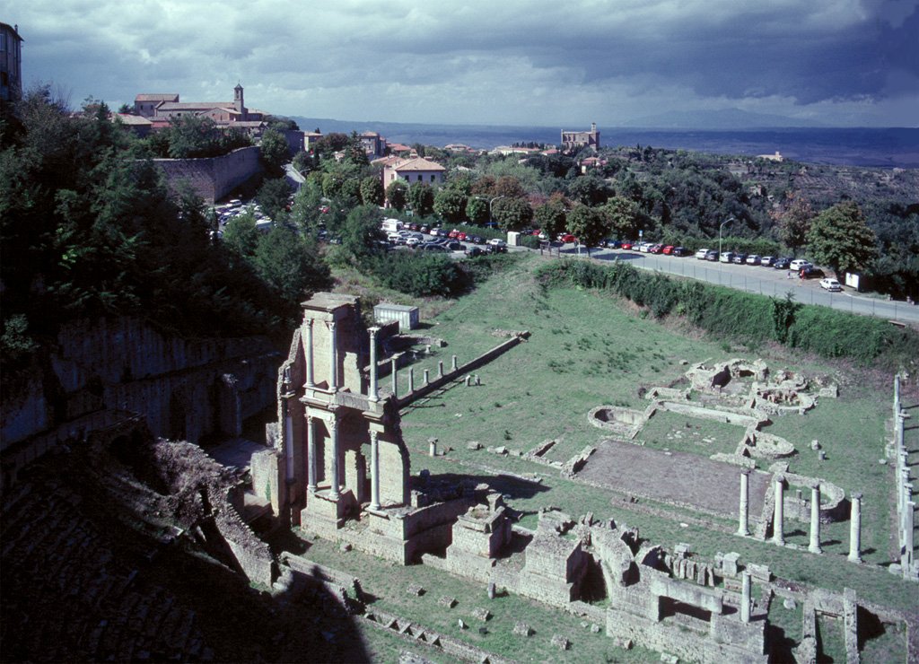 Teatro Romano, located in the town of Volterra in the province of Pisa/Italy